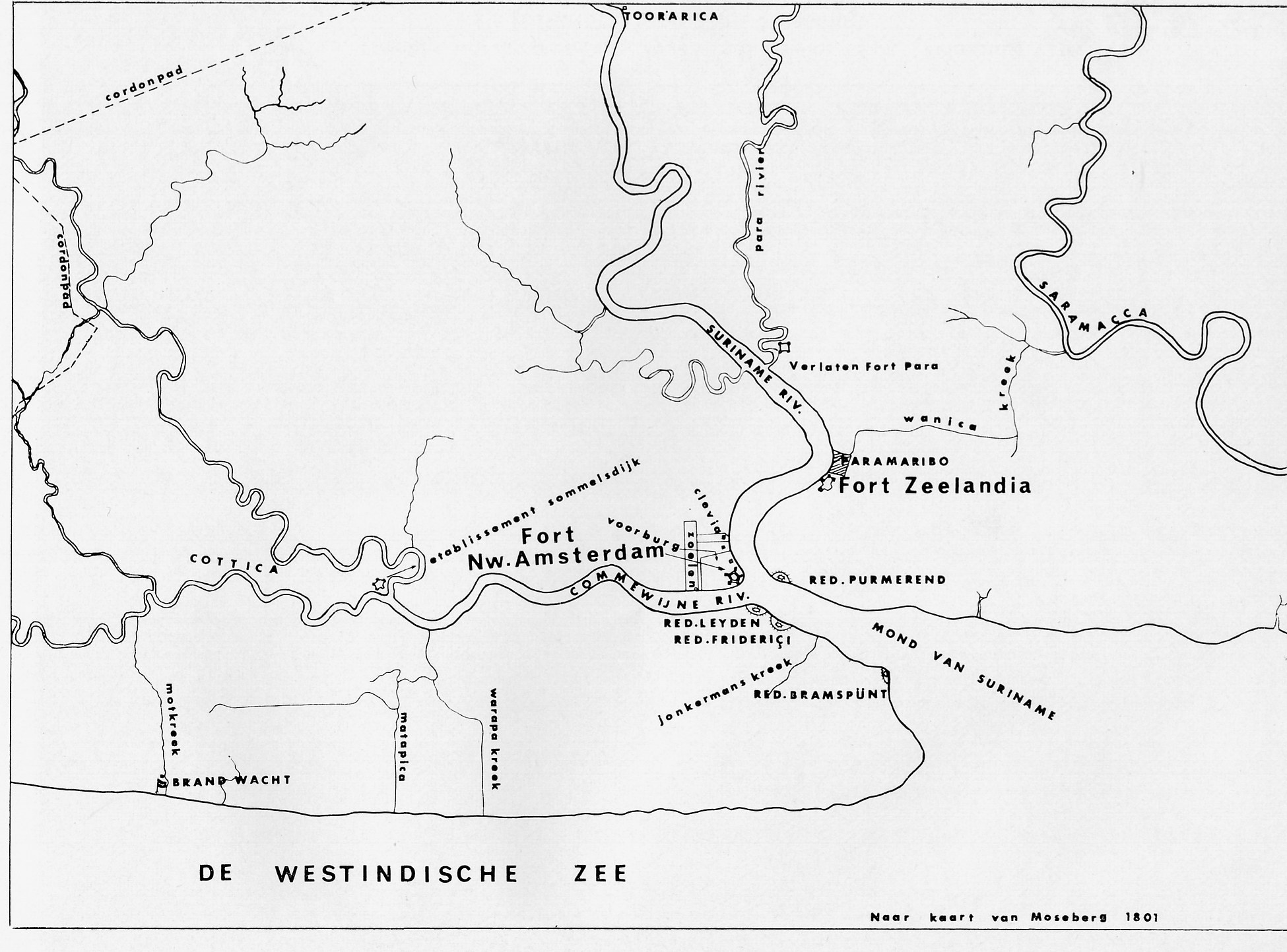 Fort Nieuw-Amsterdam & Fort Zeelandia in Suriname